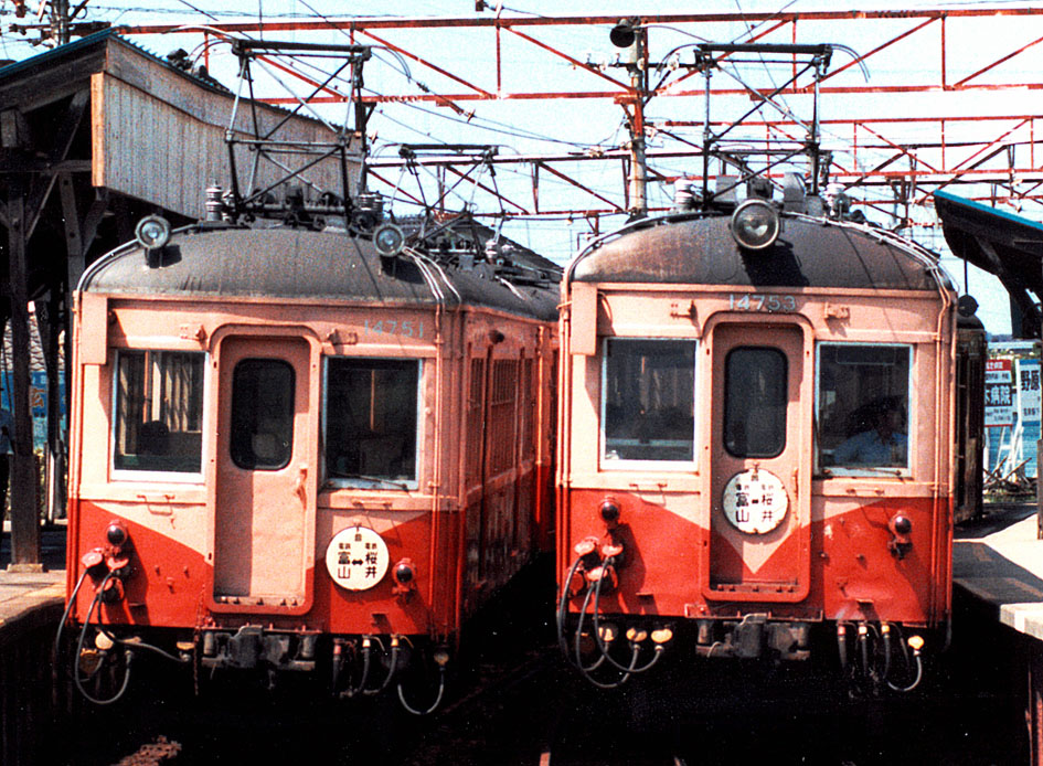 Toyama Chiho Railway 14751 and 14753 EMU at Terada Station